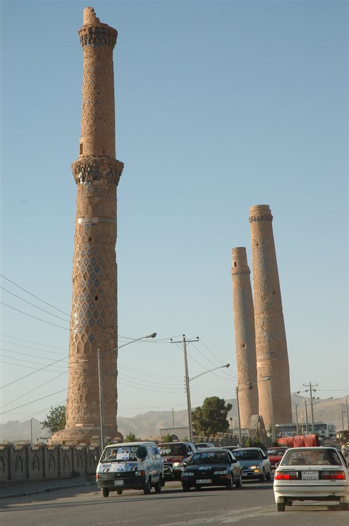 Herat - Remains of Musalla complex